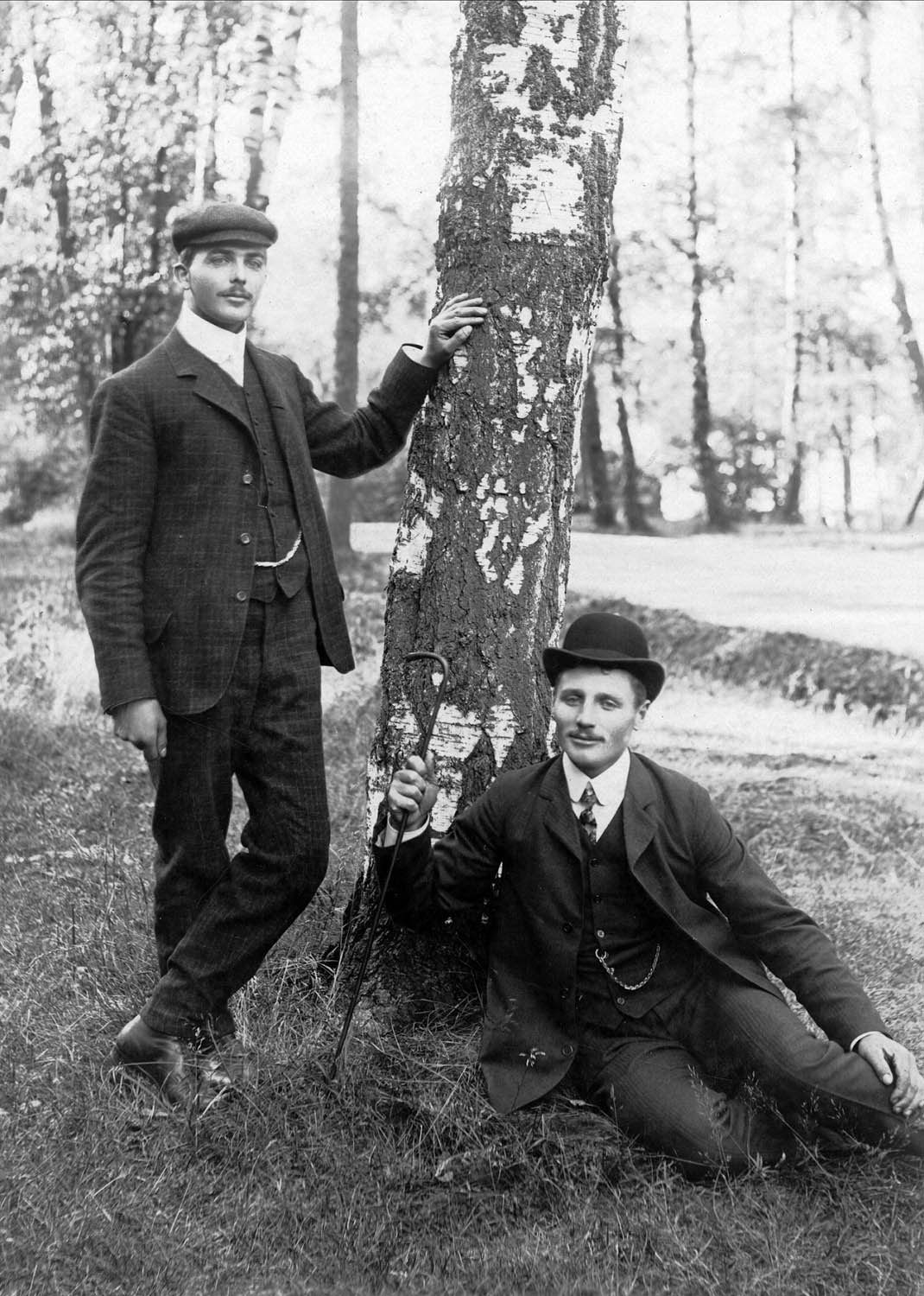 Two young men outside, one standing the other leaning at a birch.